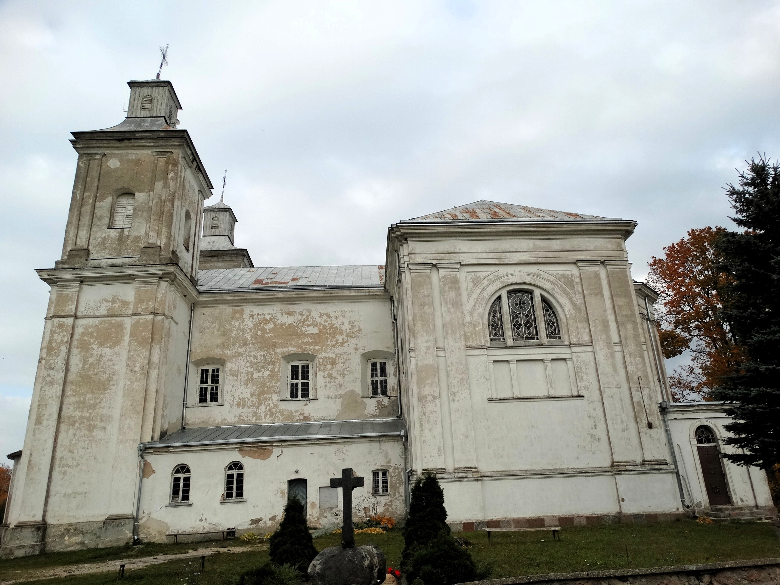 Roman Catholic Church, Rudamina, Lazjijai district, Lithuania